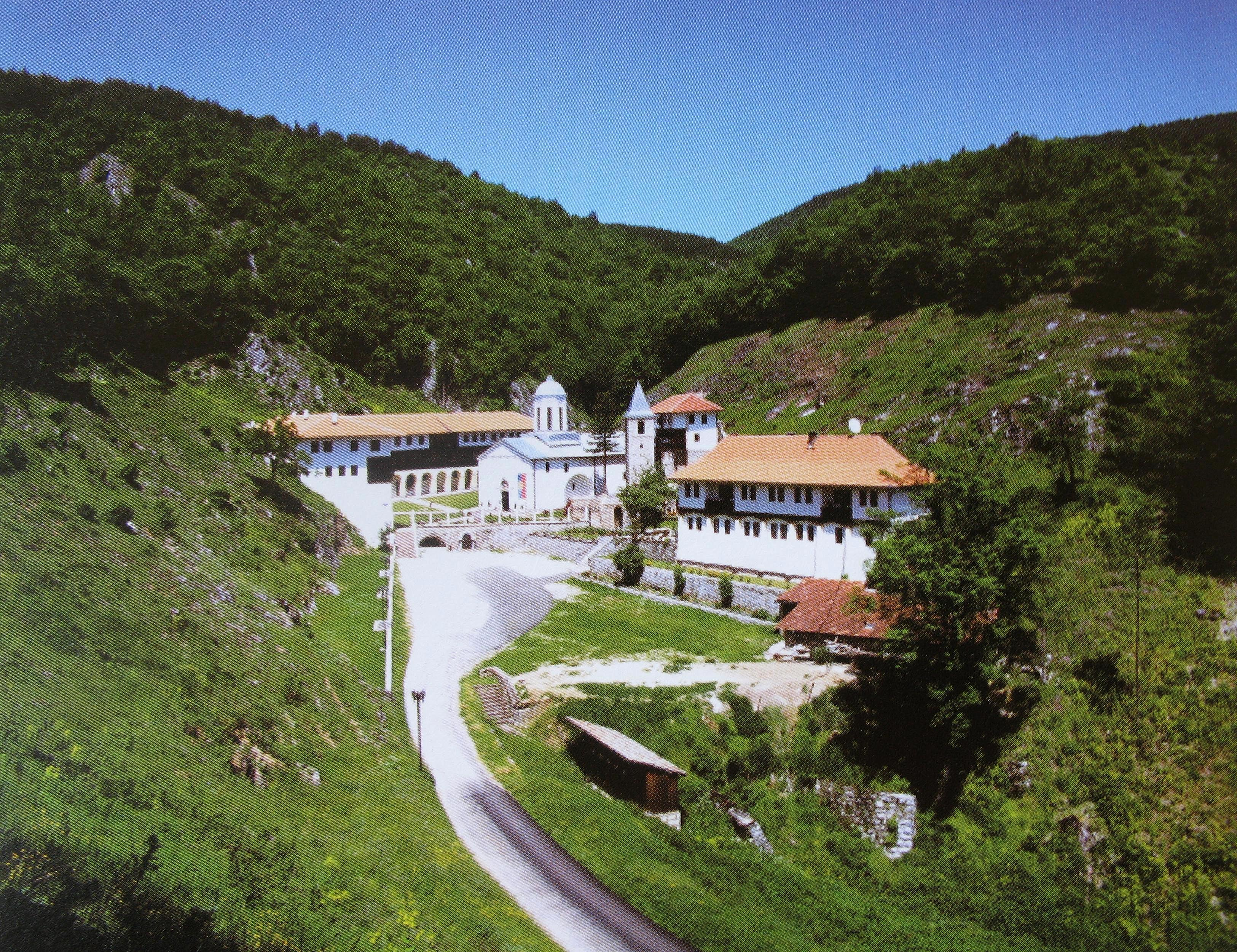 Architectural Ensemble of the Holy Trinity in Pljevlja